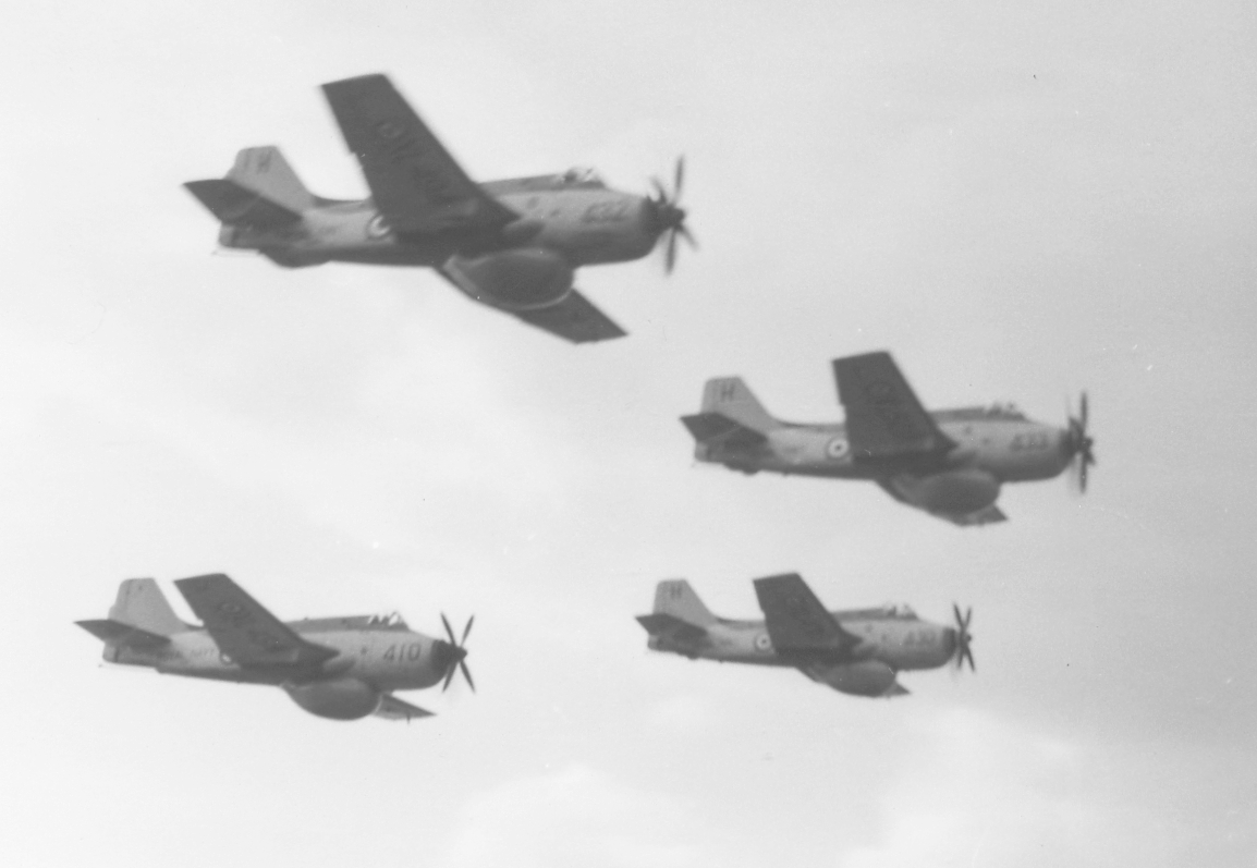 Four Fairey Gannet A.E.W.3s from 849 Naval Air Squadron at the SBAC Show, Farnborough 9 September 1961